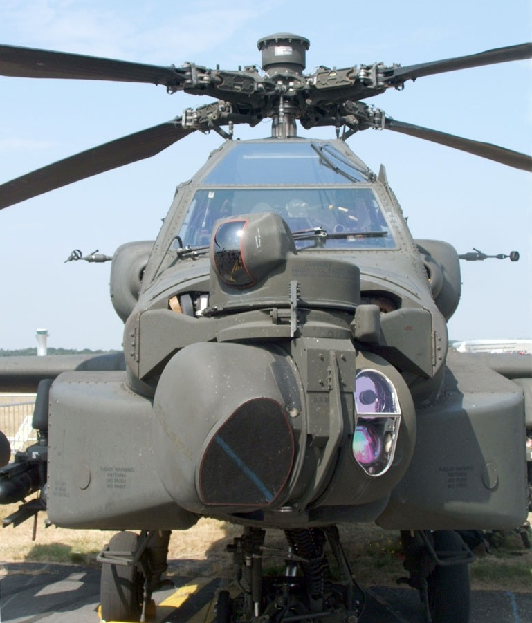 Royal Netherlands Air Force AH-64D Apache attack helicopter, static display, Farnborough, July 2006